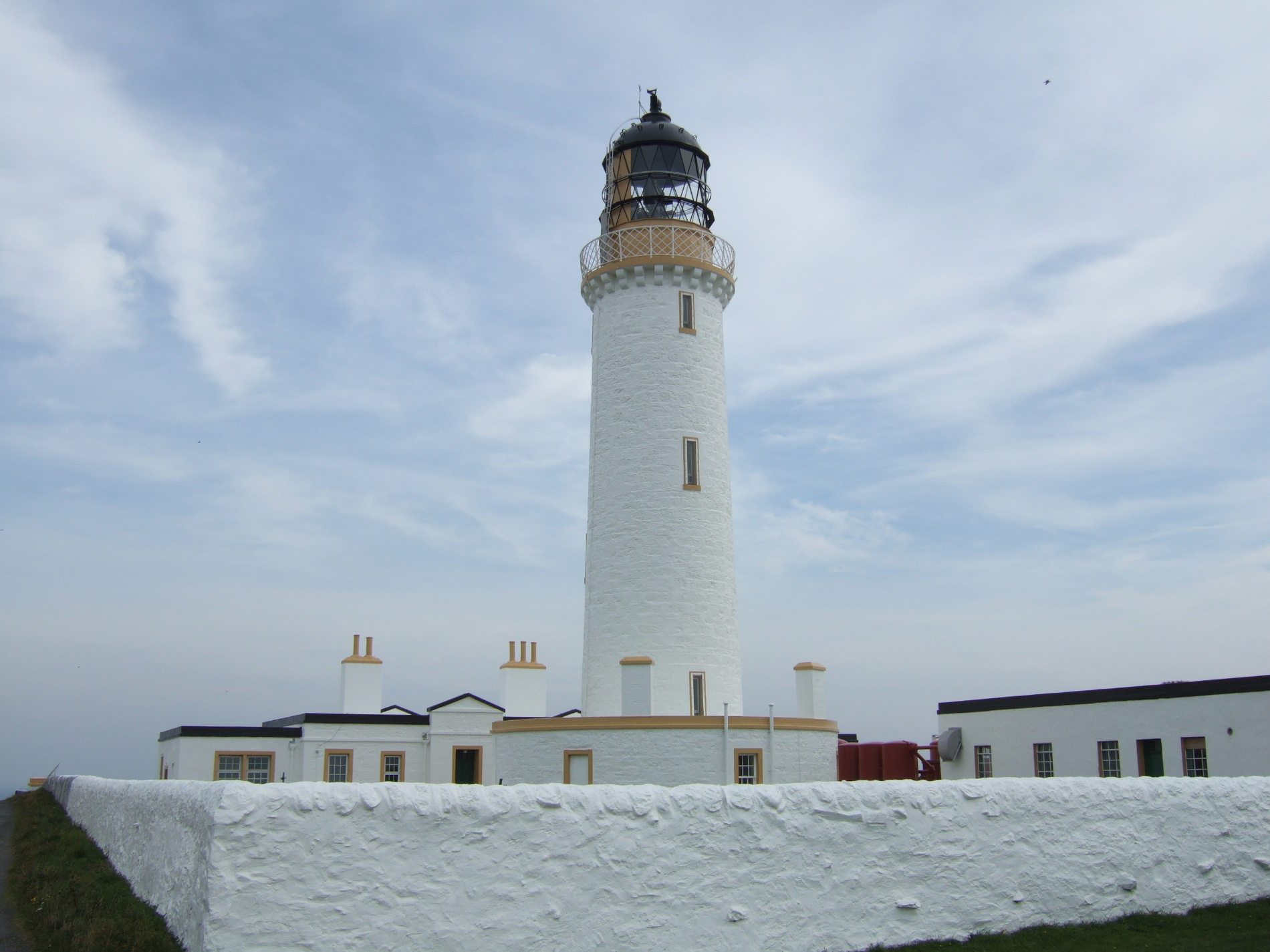 Mull of Galloway Lighthouse. 3rd September 2005 Photographer - A.M.Hurrell Camera - Fuji FinePix F10 Modified - Trimmed and file size reduced using Finepix Software